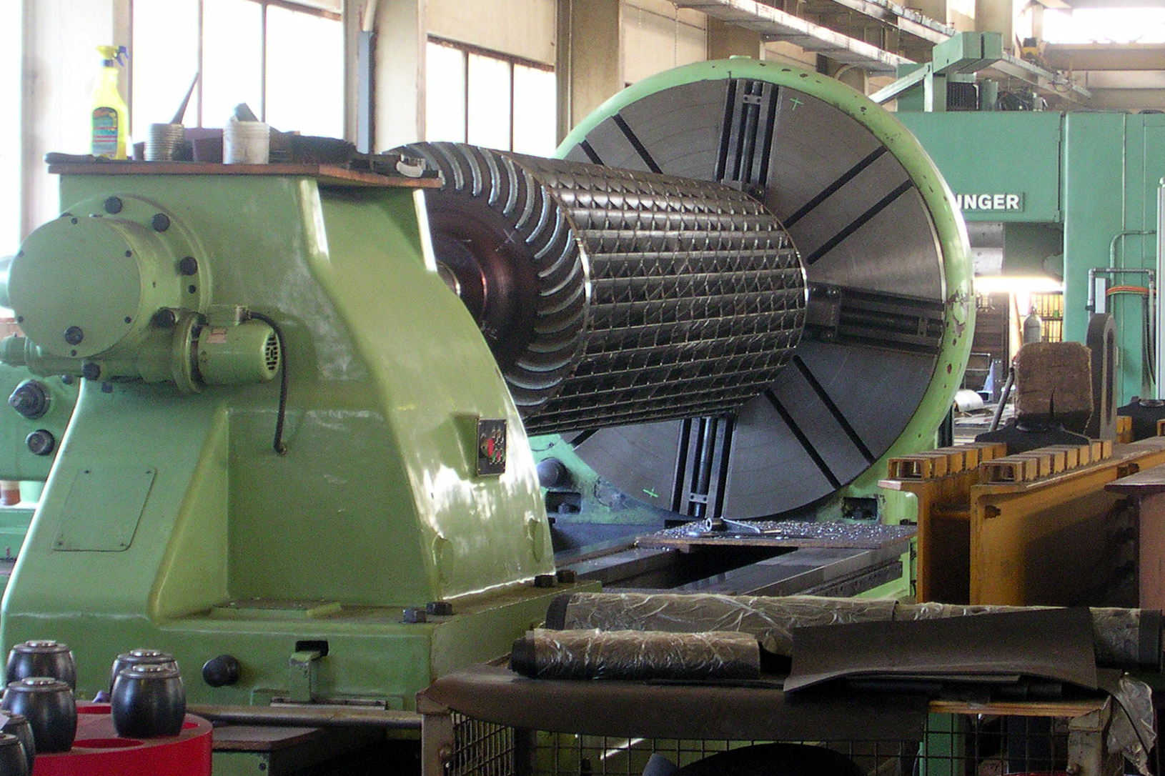 Ossberger turbine runner Ossberger GmbH + Co, Germany